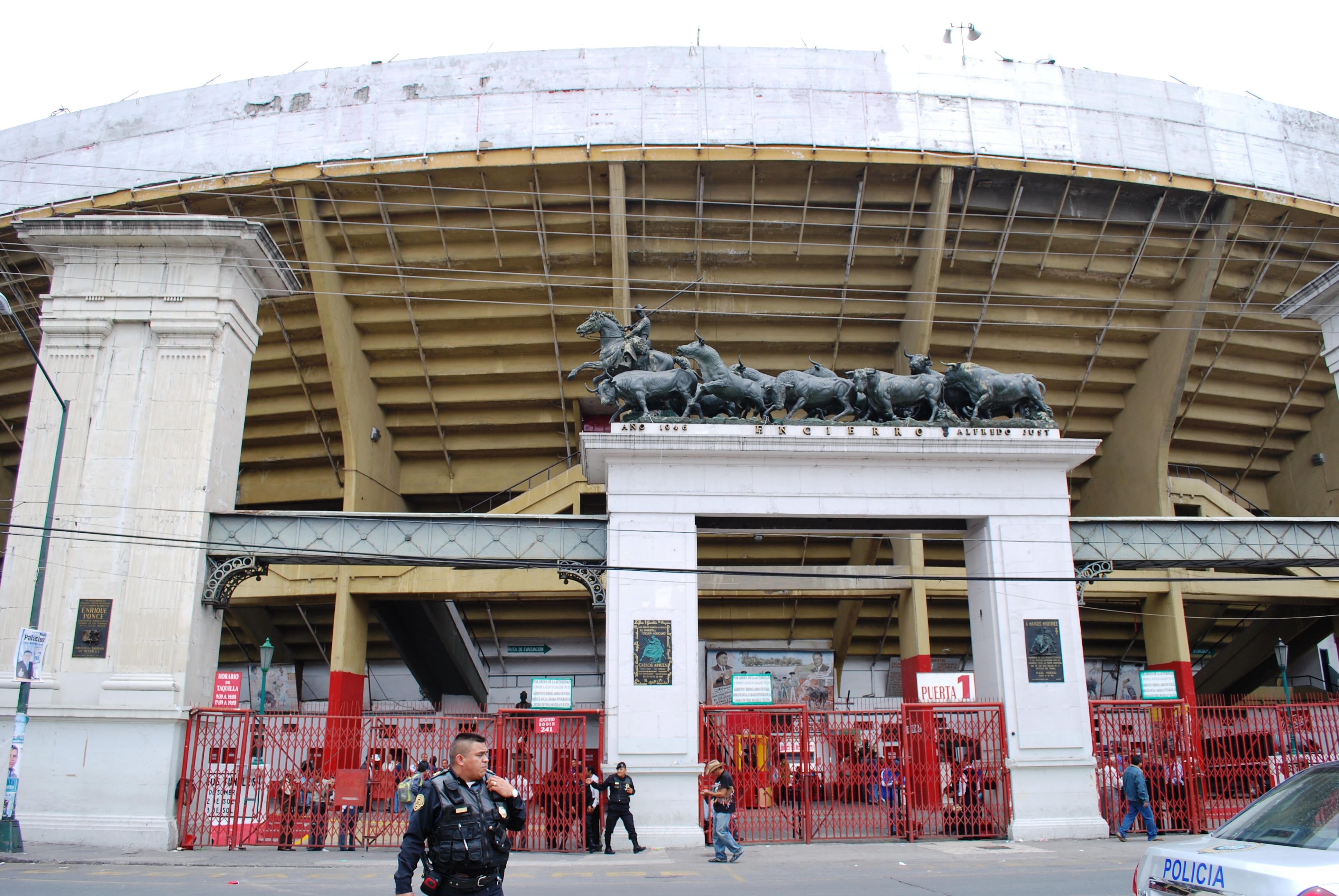 Main entrance to the Plaza de Toros in Mexico City